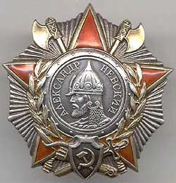 Order of Alexander Nevsky USSR, basic version 1942.